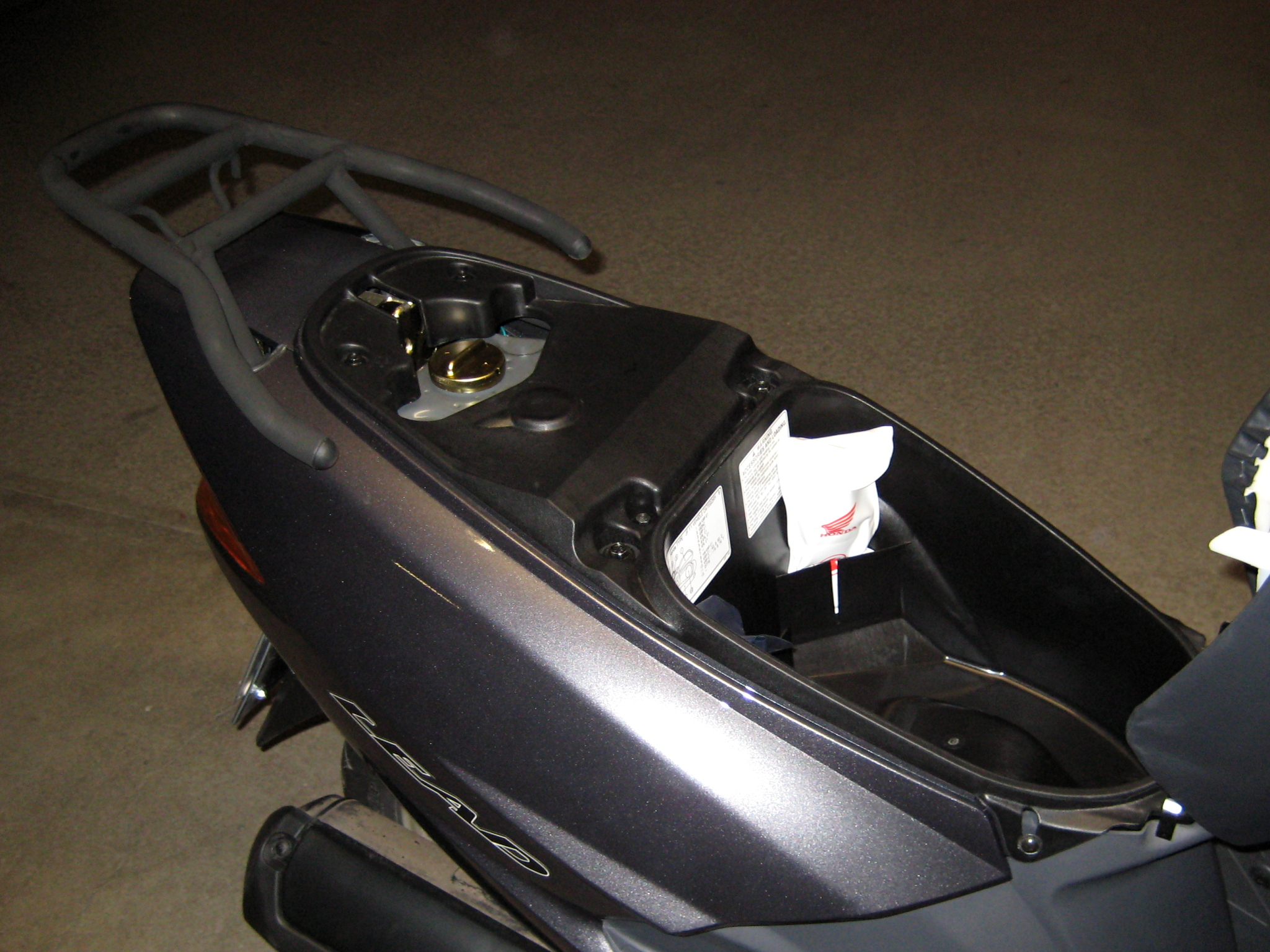 Honda SCV 100 Lead under seat luggage compartment does not hold a full face helmet.